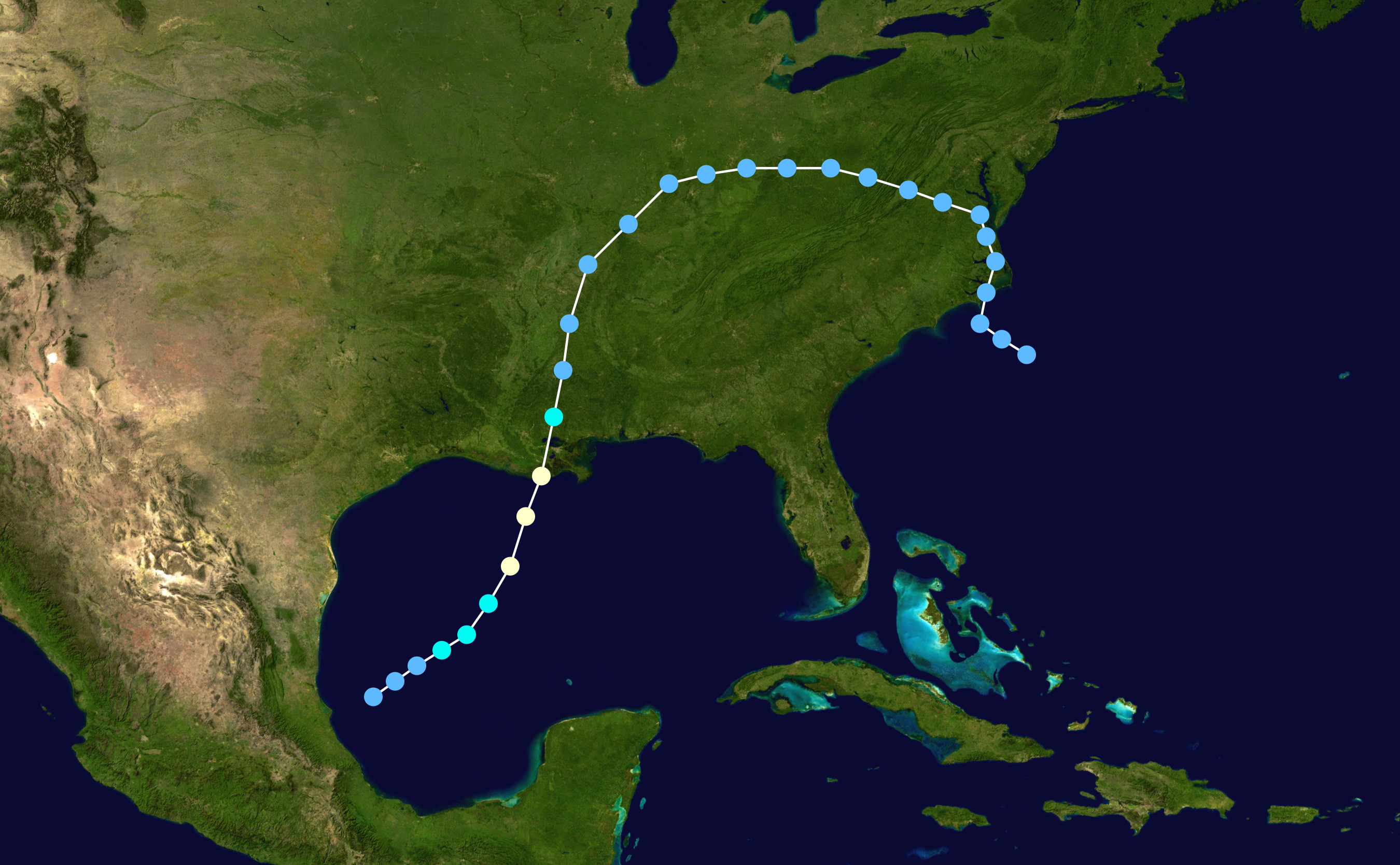 Track map of Hurricane Bob of the 1979 Atlantic hurricane season. The points show the location of the storm at 6-hour intervals. The colour represents the storm's maximum sustained wind speeds as classified in the Saffir–Simpson scale (see below), and the shape of the data points represent the nature of the storm, according to the legend below. Saffir–Simpson scale Tropical depression≤38 mph≤62 km/h Category 3111–129 mph178–208 km/h Tropical storm39–73 mph63–118 km/h Category 4130–156 mph209–251 km/h Category 174–95 mph119–153 km/h Category 5≥157 mph≥252 km/h Category 296–110 mph154–177 km/h Unknown Storm type Tropical cyclone Subtropical cyclone Extratropical cyclone / Remnant low / Tropical disturbance / Monsoon depression